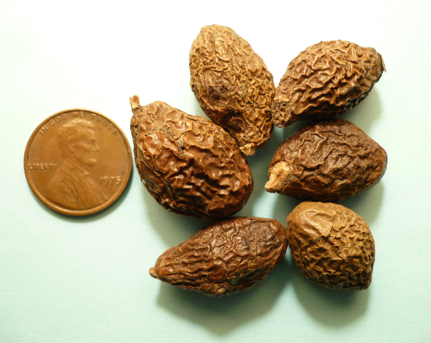 Dried Sterculia lychnophora seeds, with a U.S. penny (one-cent coin) at left, for comparison. Photo taken in Kent, Ohio with a Panasonic Lumix digital camera (model DMC-LS75). Sterculia lychnophora seeds purchased in a Cleveland, Ohio Vietnamese grocery store. In various languages, the seeds are called poontalai, pangdahai, samrong, hột lười ươi, hạt lười ươi, đười ươi, mak chong, or malva nuts. In Vietnam, they are soaked and mixed with sugar to produce a refreshing drink enjoyed in the summer.